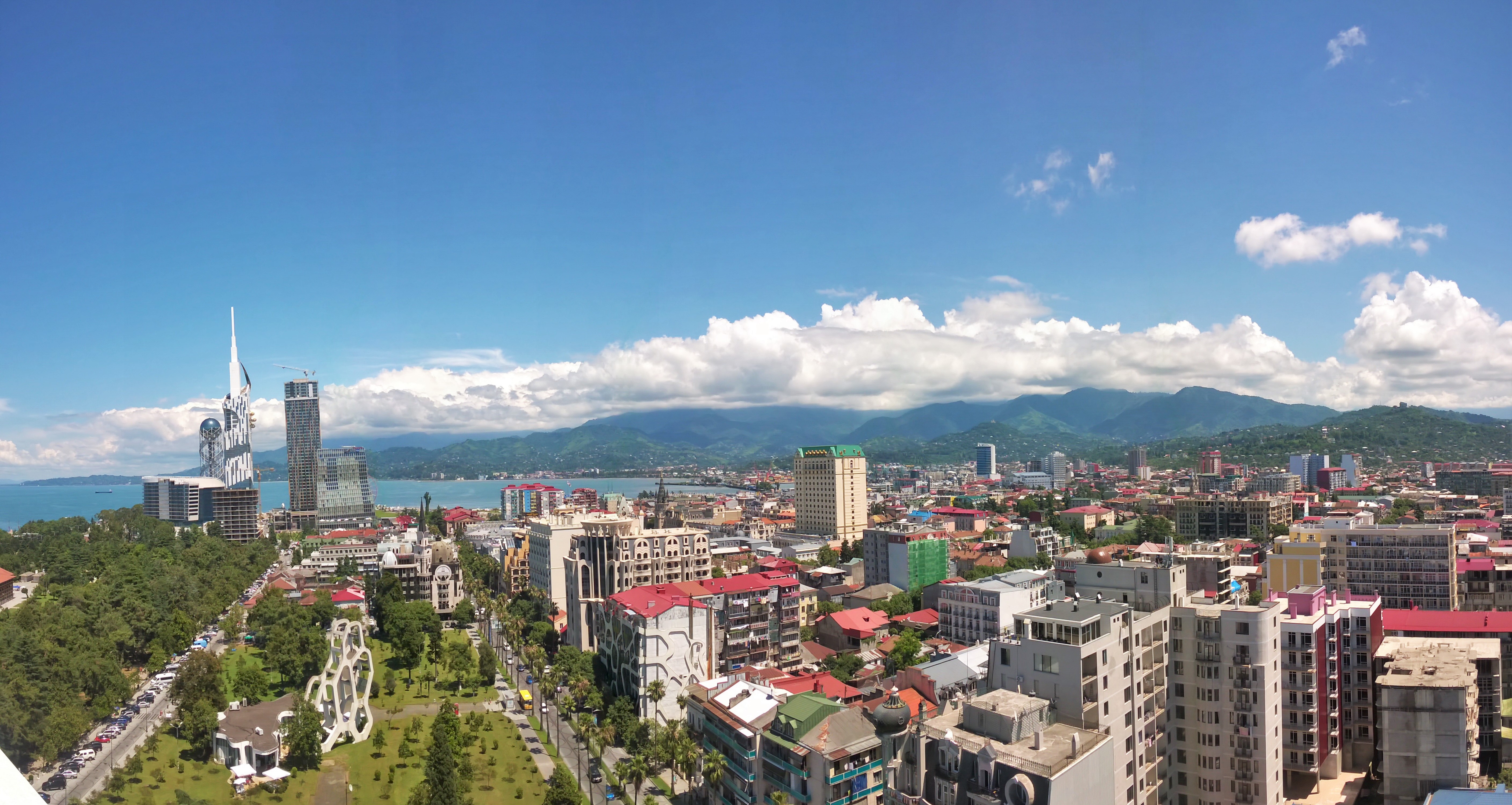 Seaside city of Batumi, Georgia